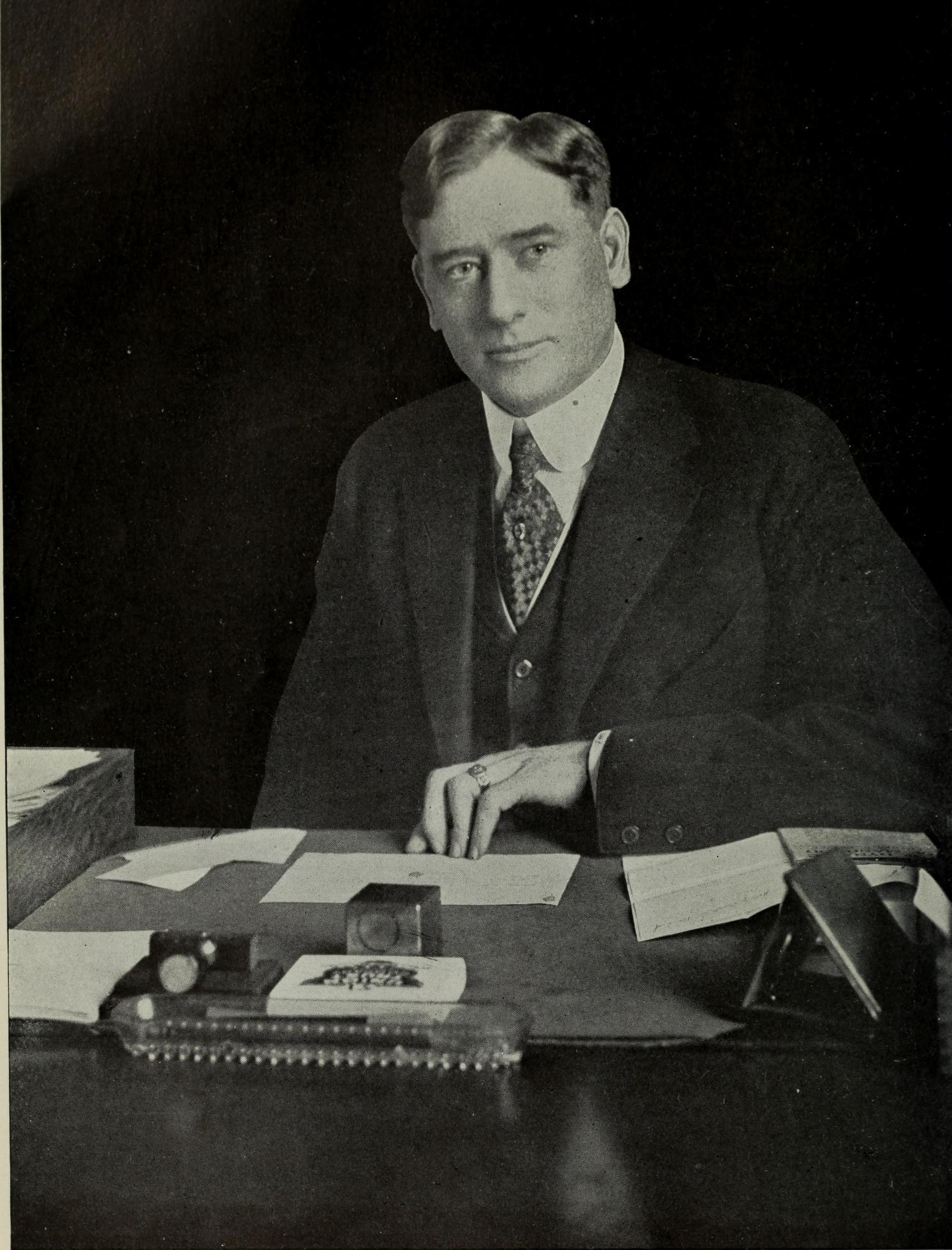 Marion LeRoy Burton (August 30, 1874 – February 18, 1925)